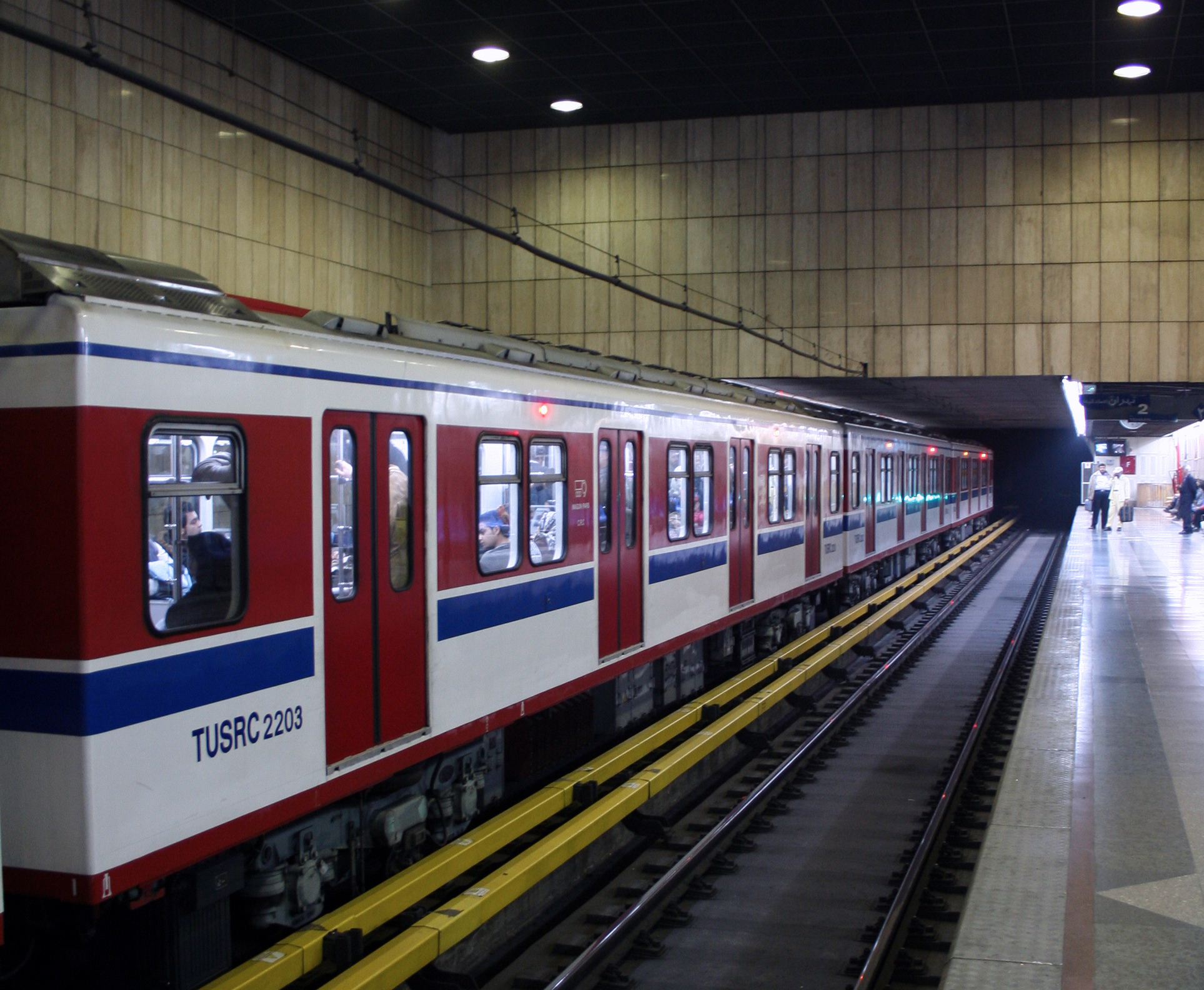 Type DKZ2 Metro Cars in Azadi Station, Tehran Metro